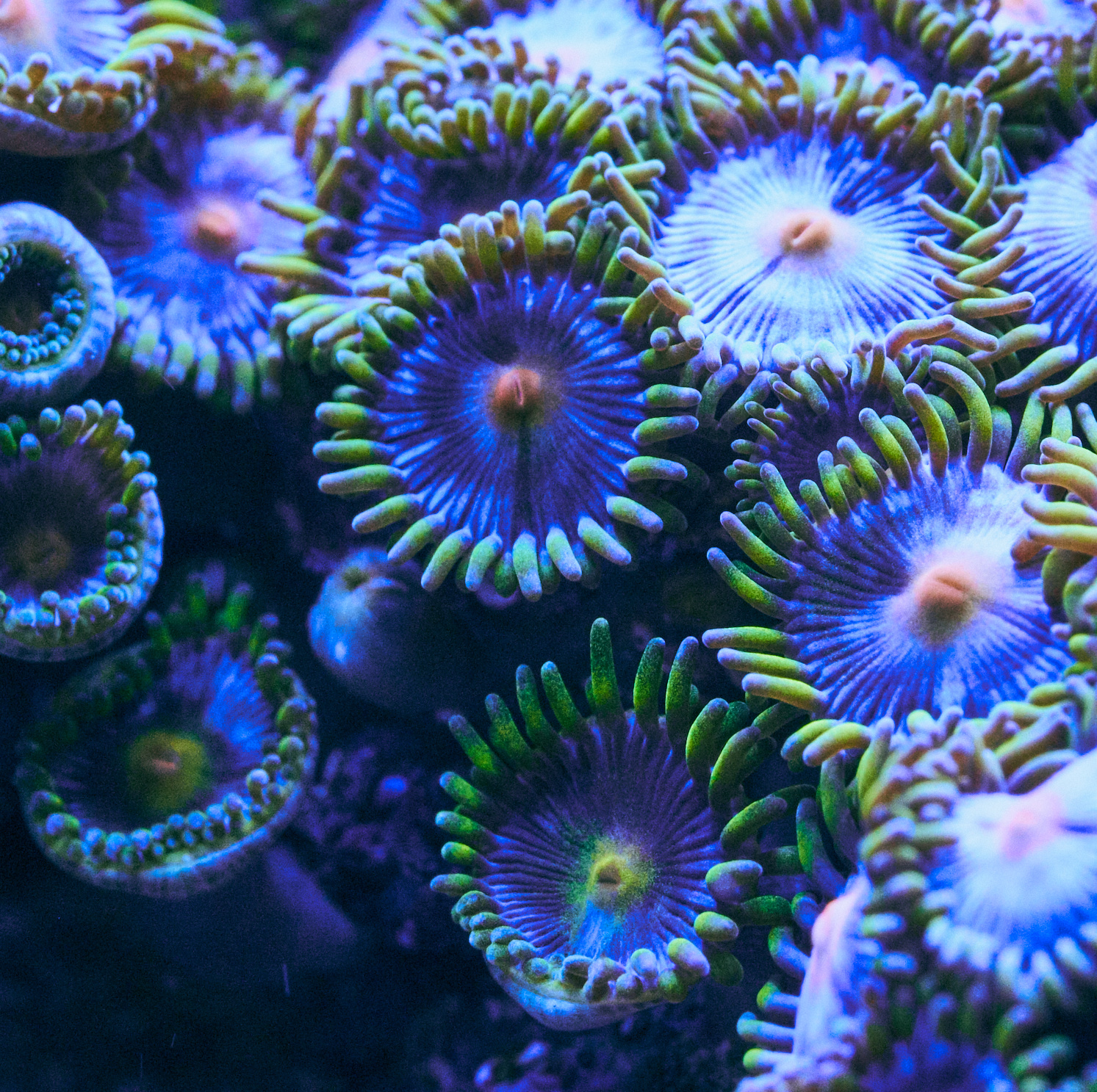 A close up photo of Zoanthus sp. showing the structure of polyps and 6-fold symmetry.